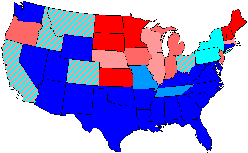 Summary of party control of U.S. house seats in the 77th United States Congress following election. Stripes indicate a tie between two or more parties. Legend: 80.1-100% Democratic seat majority 60.1-80% Democratic seat majority 60% or less Democratic seat plurality 60% or less Republican seat plurality 60.1-80% Republican seat majority 80.1-100% Republican seat majority